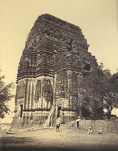 Temple in Gwalior Fort -1881